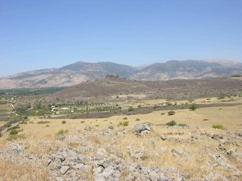 View to Horbat Omrit, to Tel Azzaziat and to the Anti-Lebanon mountains from top of Givat HaEm, Upper Galilee, Israel